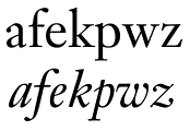 Screenshot of Janson font, roman and Italic.